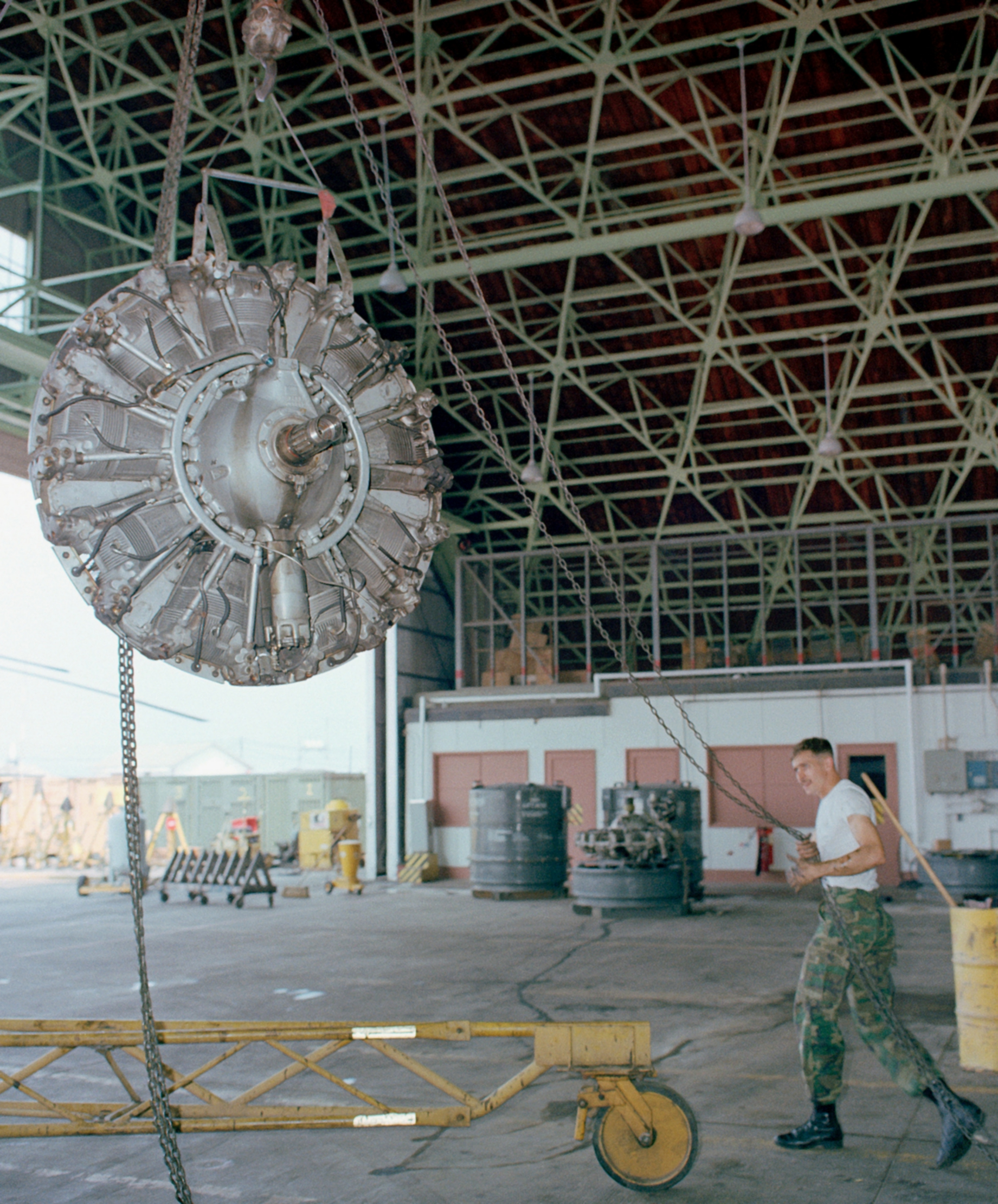 A Wright R-1820-80 engine of a U.S. Marine Corps Douglas C-117D Skytrain aircraft at Marine Corps Air Station Iwakuni, Japan, in 1982.